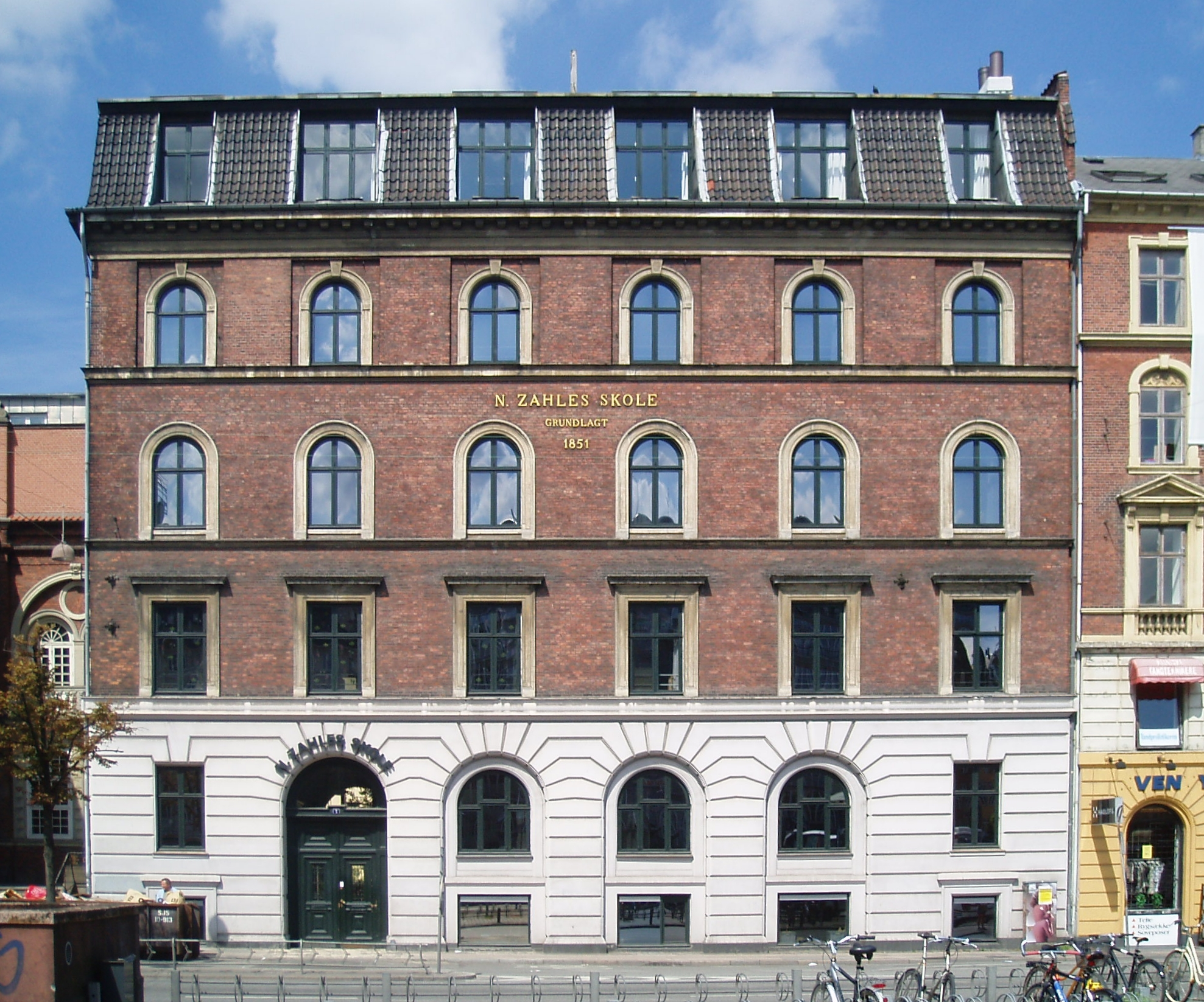 Natalie Zahle's Gymnasieskole (equivalent "secondary school"). This part of the school houses the primary school. Adjecent the shcool has a "gymnasium" (ca. equivalent "high school") and a teacher's training college.